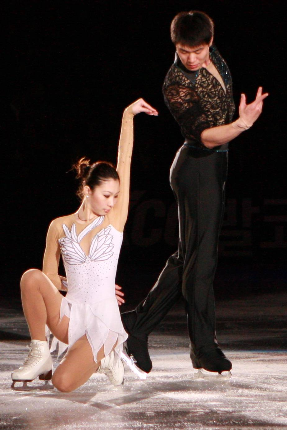 Dan Zhang & Hao Zhang (CHN) at the 2009 Festa On Ice.